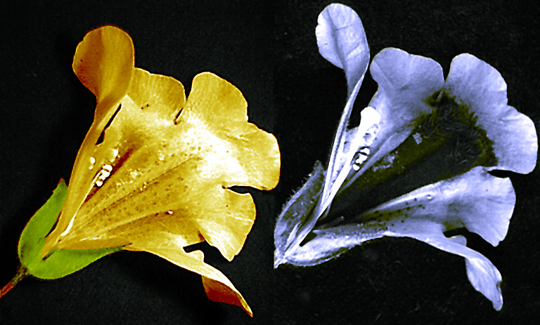 Mimulus flower photographed in visible light (left) and ultraviolet light (right) showing a nectar guide visible to bees but not to humans.